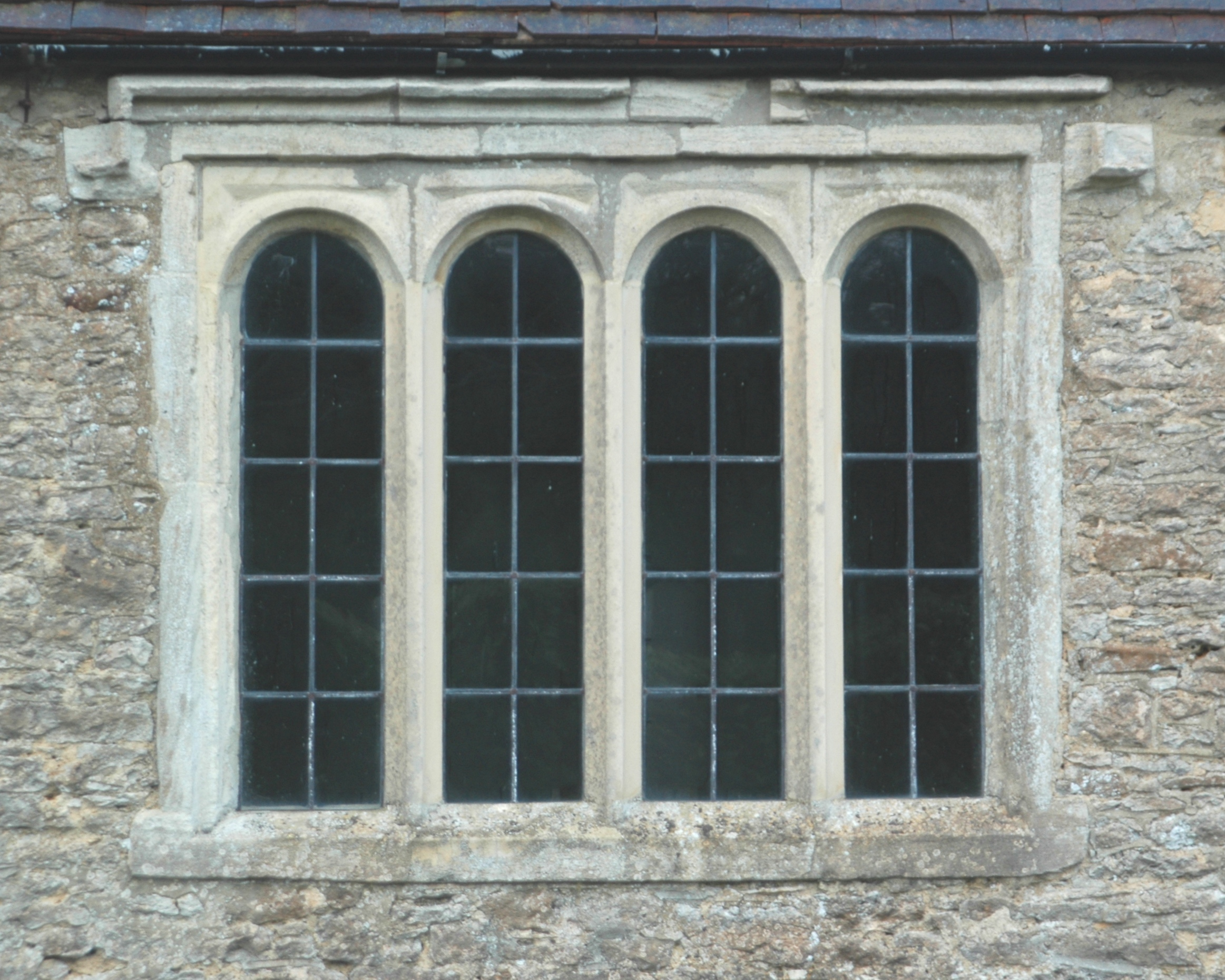 Church of England parish church of St George, Hatford, Oxfordshire (formerly Berkshire)